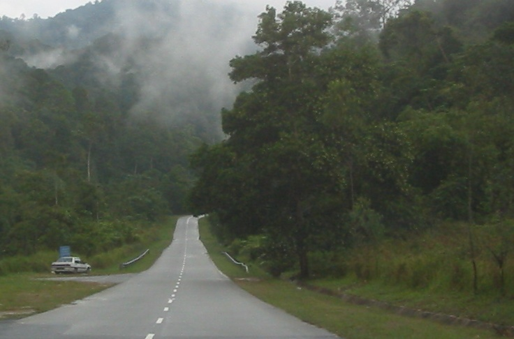 Photo of Lenggong